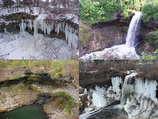 Photographs of Minnehaha Falls at different times of different years. Clockwise from upper left: winter, summer, spring, fall.